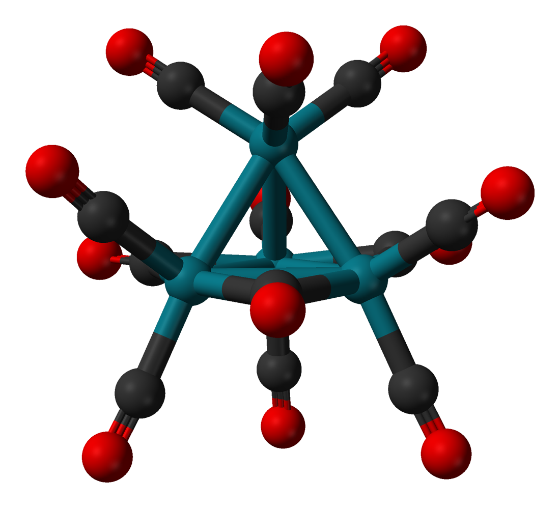 Ball-and-stick model of tetrarhodium dodecacarbonyl molecule, Rh4(CO)12, as found in the crystal structure at 173 K. X-ray crystallographic data from L. J. Farrugia (March 2000). "Structural Redetermination of Rh4(CO)12 at 293 and 173 K and Analysis of the Thermal Motion in Relation to the Dynamical Behavior". Journal of Cluster Science 11: 39-53. Model constructed in CrystalMaker 8.1. Image generated in Accelrys DS Visualizer.